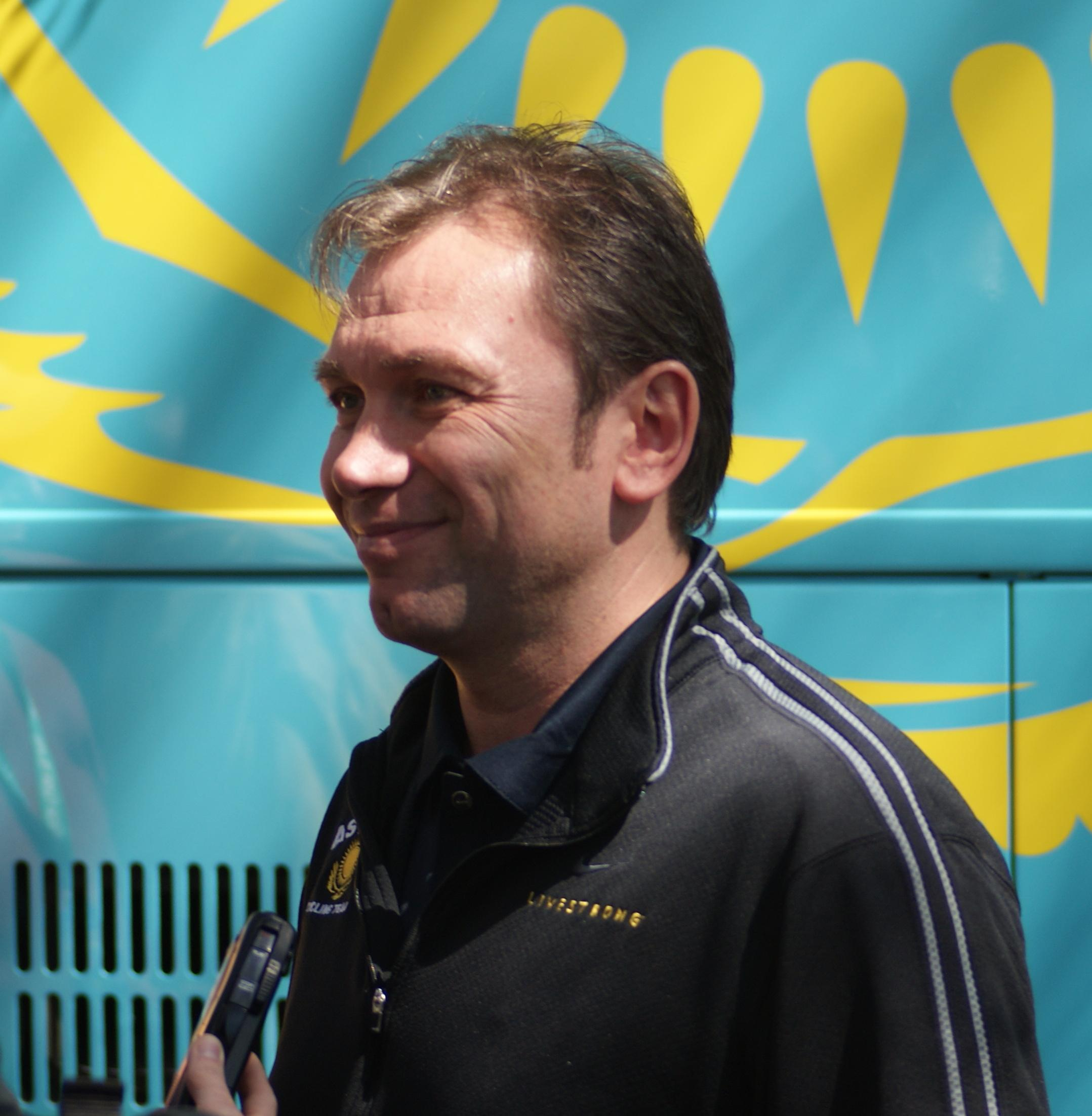 Former road bicycle racer Johan Bruyneel in Palencia (Spain) during Vuelta a Castilla y León 2009 as the director of the Team Astana.